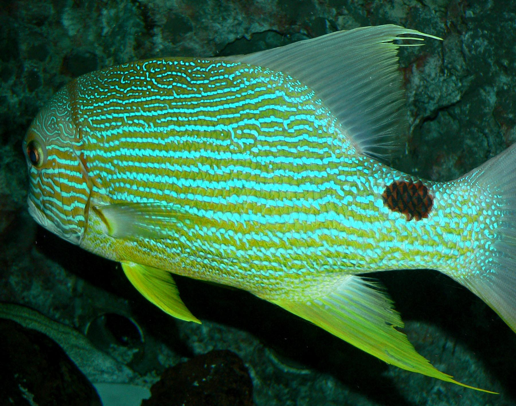 Photo of Symphorichthys spilurus (sailfin snapper) at the Vancouver Aquarium